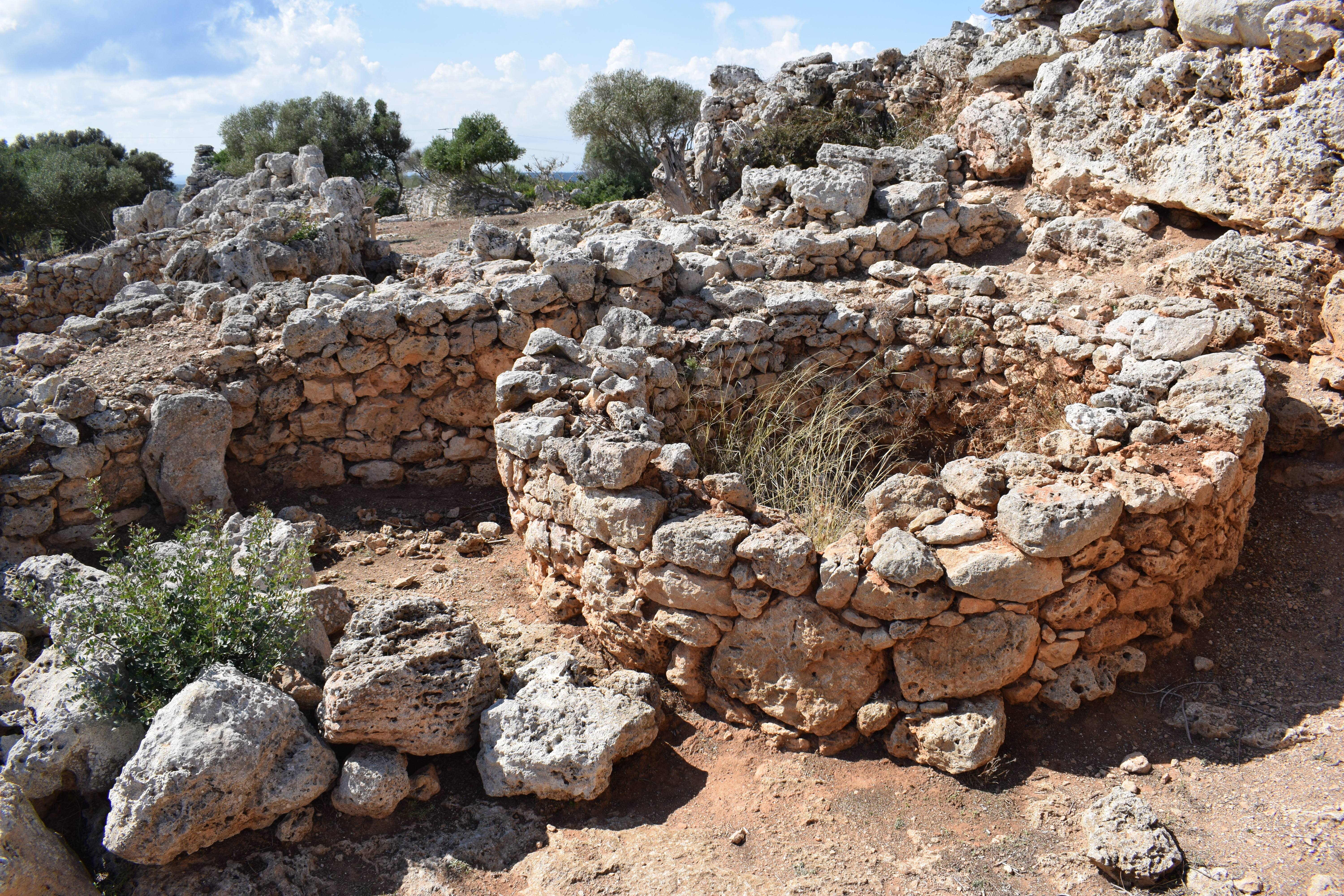 Circular Oven at So na Caçana, Alaior, Minorca.